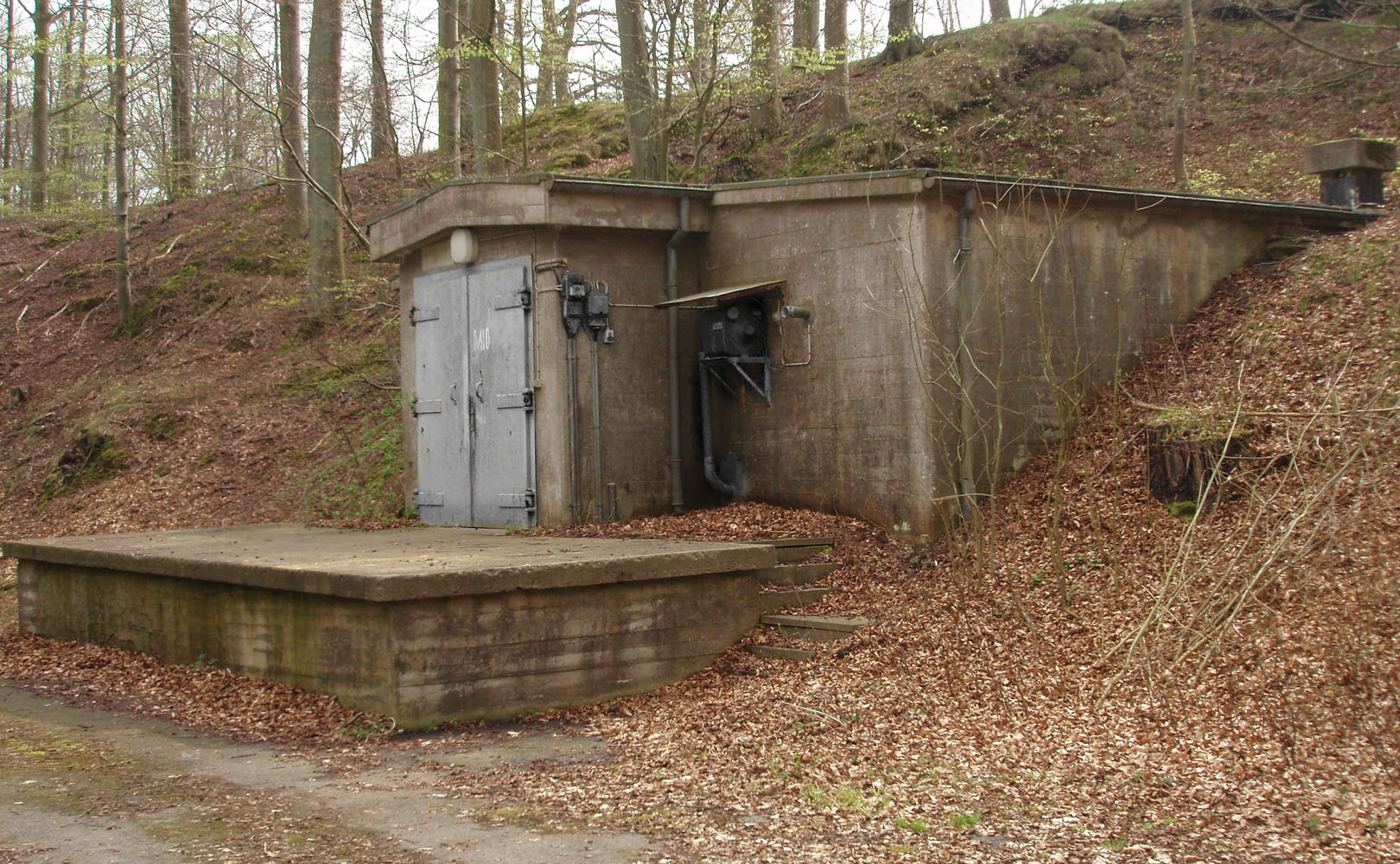 A bunker on the now privately owned Naval depot Fylleledet, just west of FrederikshavnDansk: En bunker på det nu privatiserede Flådedepot Fylleledet, umiddelbart vest for Frederikshavn